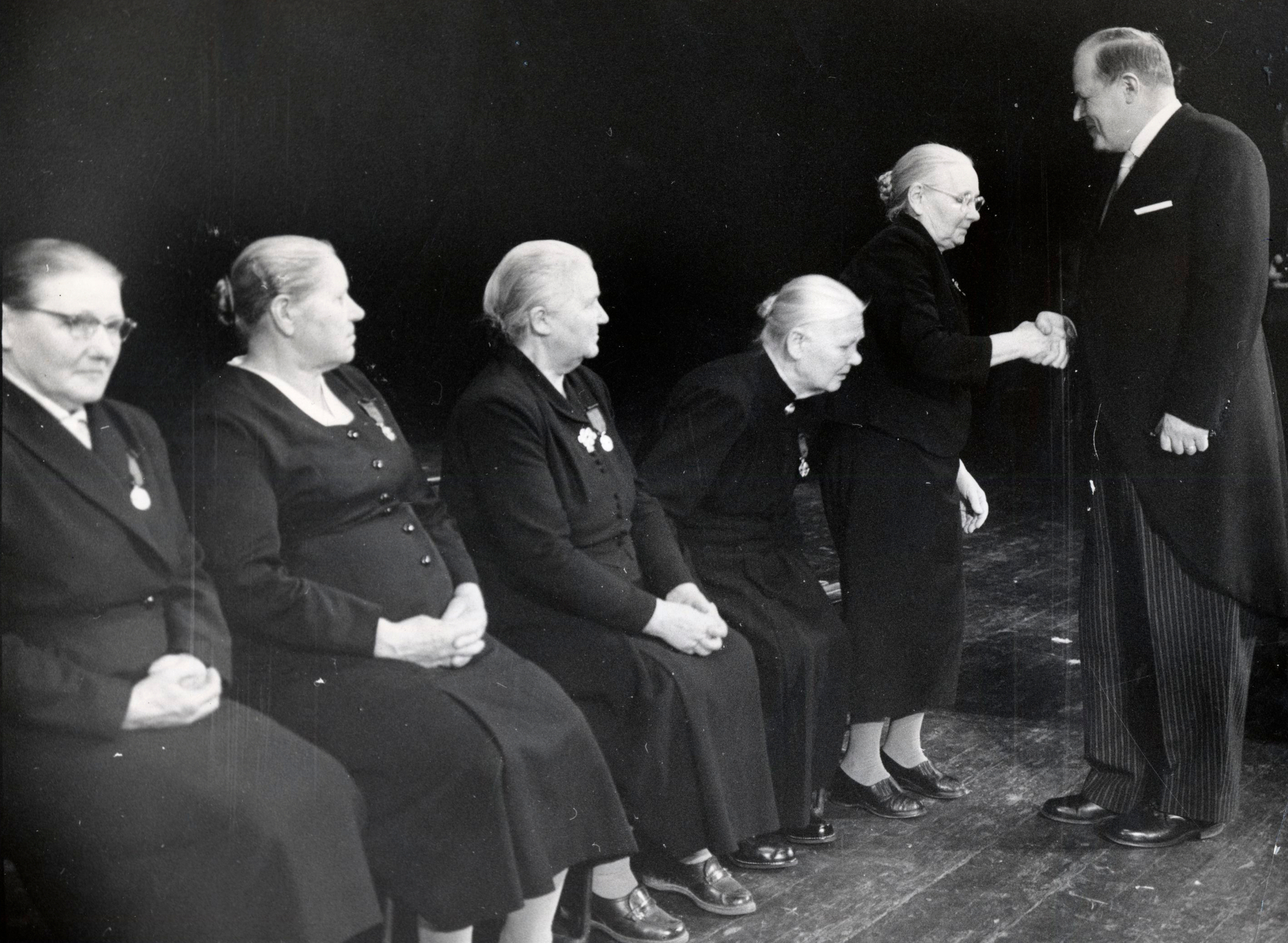 Photograph of the Finnish minister of education presenting mother’s day orders.